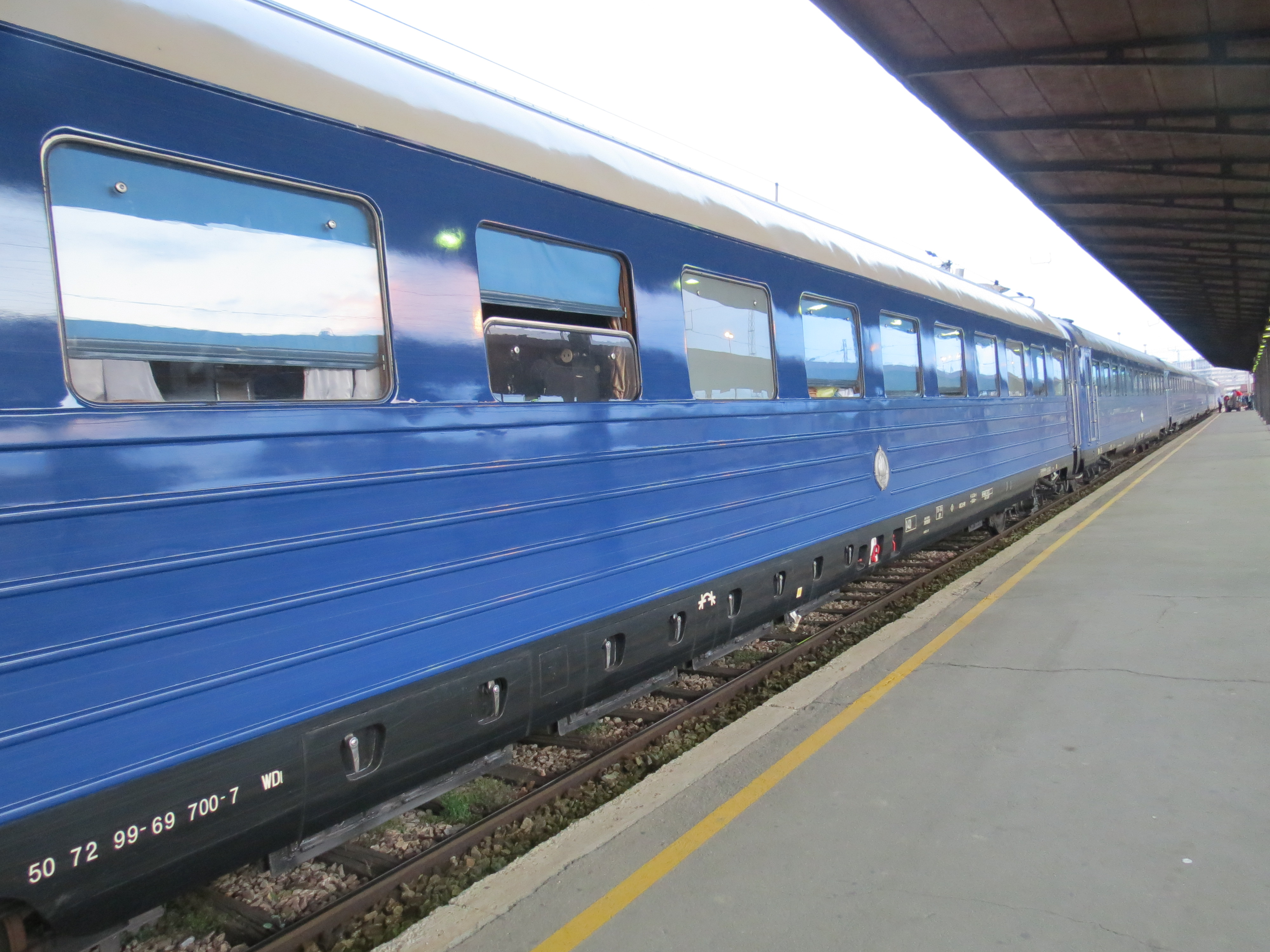 The blue train which Yugoslav President Josip Broz Tito used to travel across his country.